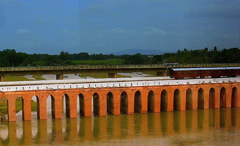 270 year old road and meter guage rail bridge across the kabini, build in 1735. This bridge is now declared a Heritage Monument.